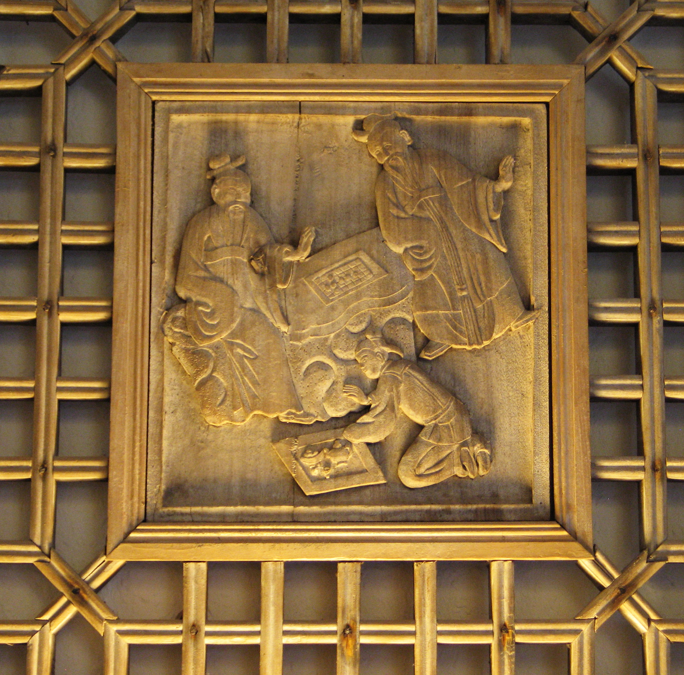 Chinese wooden lattice with figure relief